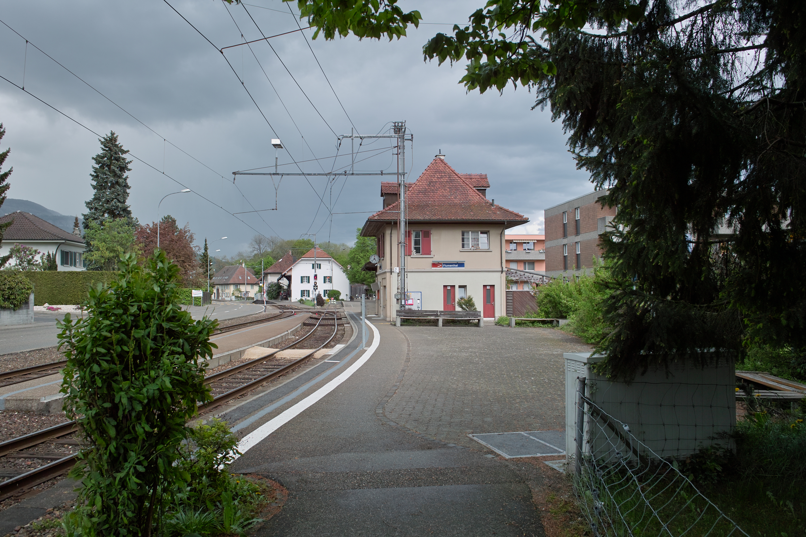 Railway station of Flumenthal, canton of Solothurn, Switzerland.